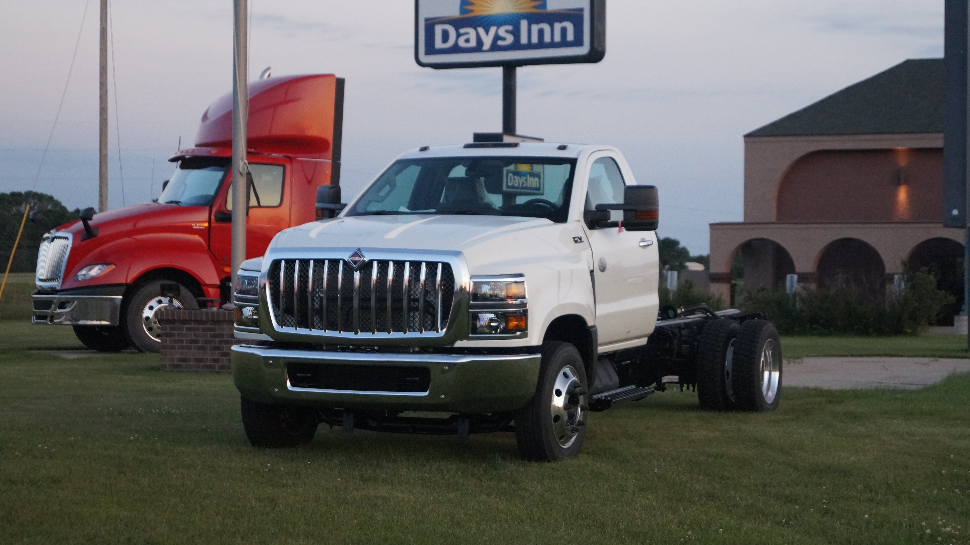 Photograph of 2019-2020 International CV medium-duty truck